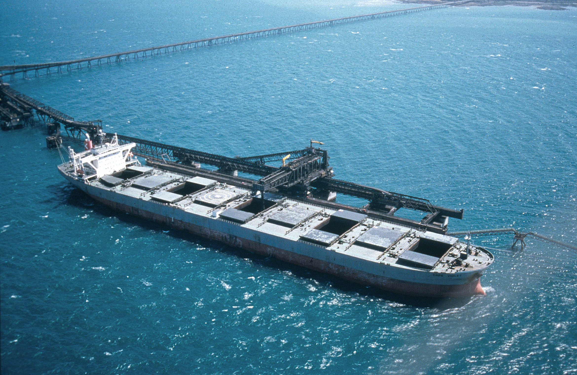 Ballast water is used by shipping world-wide to enhance the safety and operational efficiency of modern vessels. When cargo is unloaded from a vessel, ballast is taken up to maintain the trim and draft of the vessel. When a vessel loads ballast water, it also takes up all the minute organisms contained in that water which may include planktonic species, the larvae invertebrates and fish, and pathogens. These organisms are released with the ballast water at another port when the vessel loads more cargo. It has been estimated that world-wide, over 3,000 species are transported in ballast water every day.